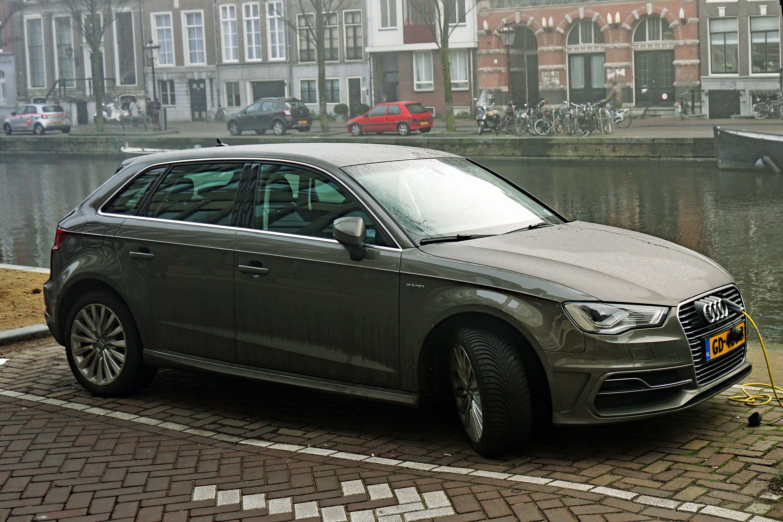 Audi A3 e-tron plug-in hybrid in Amsterdam